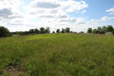 The hill over the bunker 17/5001 in the summer 2006